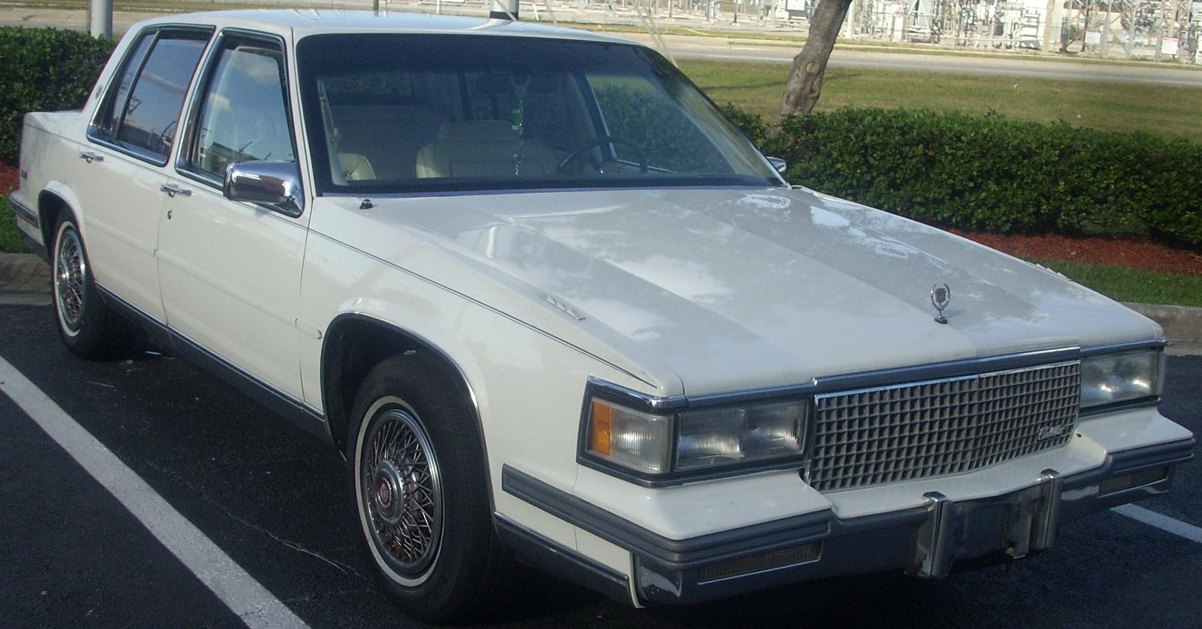 Cadillac DeVille photographed in Orlando, Florida, USA.